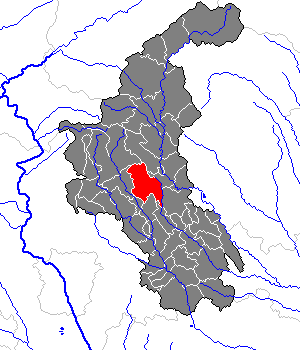 This map shows the area of the Gemeinde (municipality) Thannhausen in the Bezirk (district) Weiz, Styria, Austria.